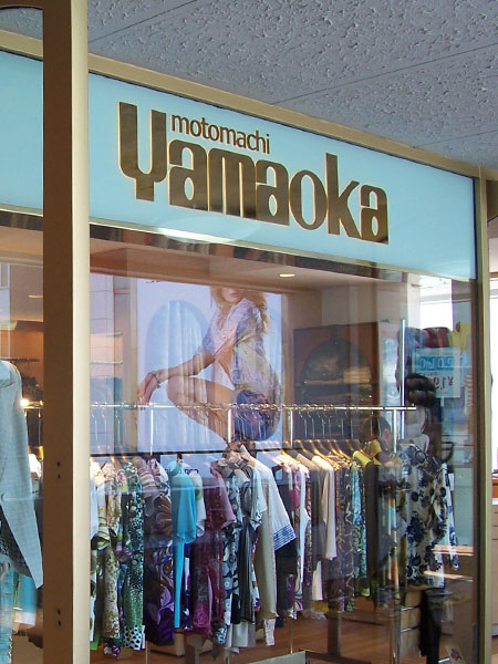 shop entrance